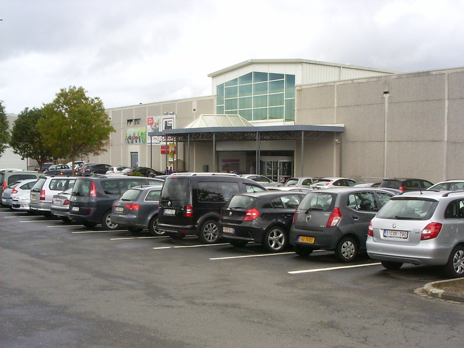 Knauf shopping center, Huldange, western entrance